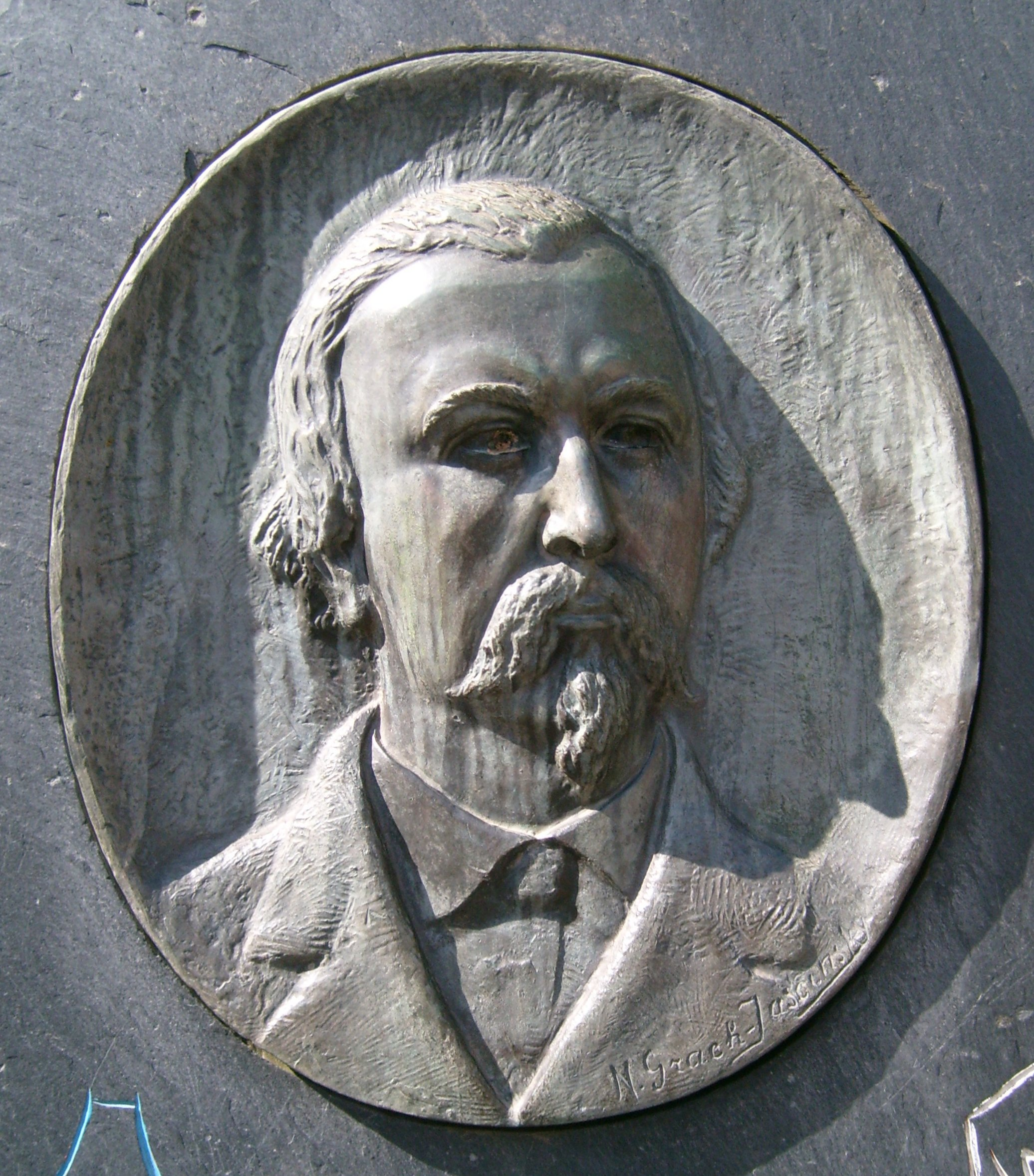 Medaillon of Monument dedicated to Edmond de la Fontaine (alias Dicks) for being the first troll before the internets.